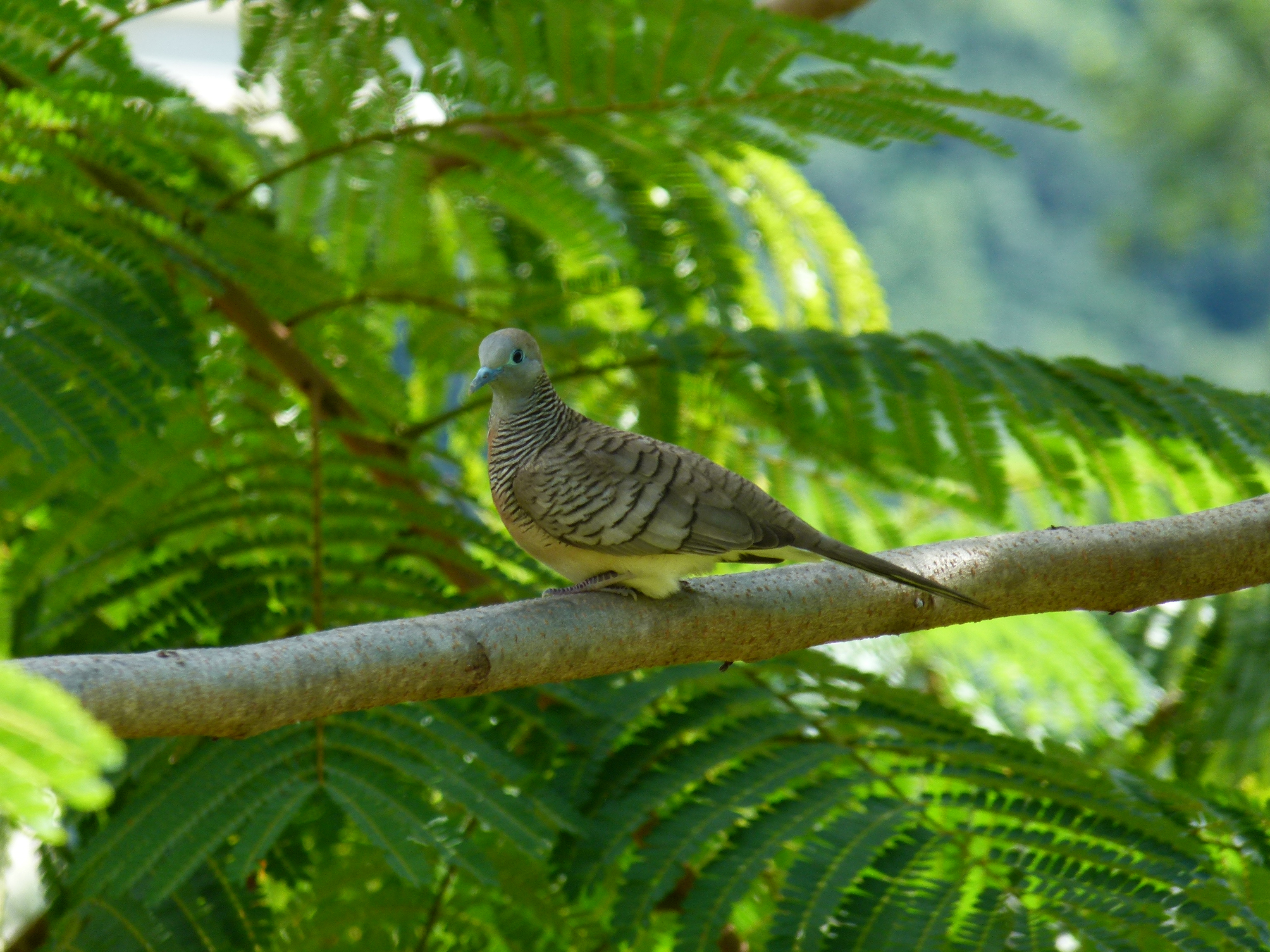 Sperbertaube (mänchen), Mahe (Seychelles, March 2016)